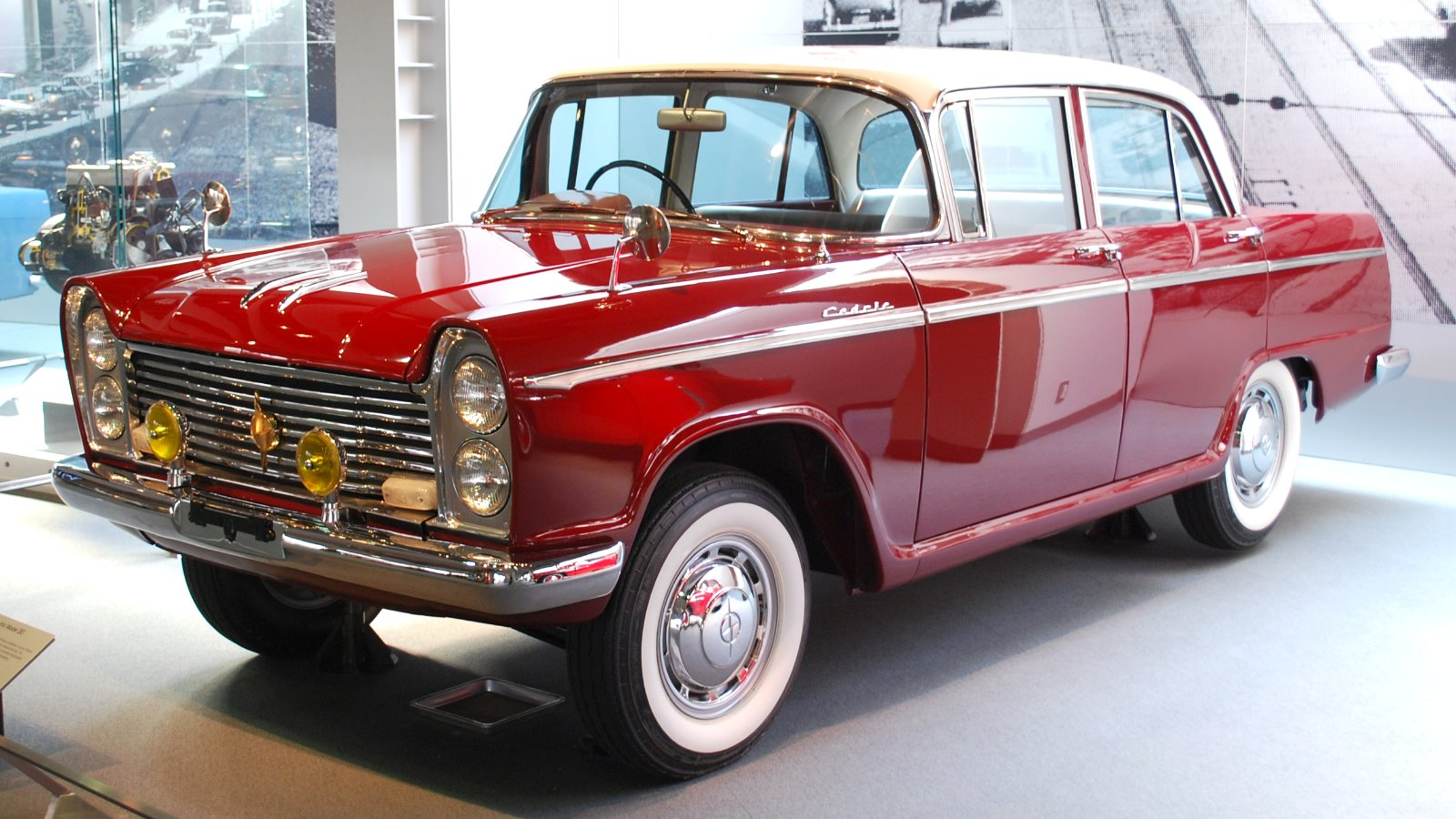 1st generation Nissan_Cedric Model30 (1960/4 - 1961/9)